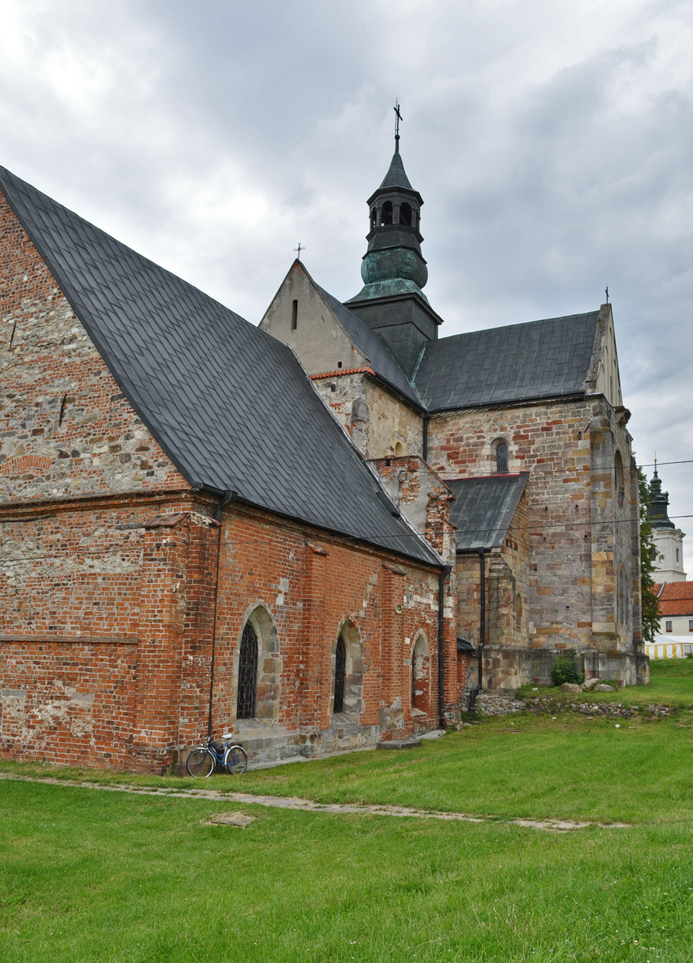 Cistercian abbey - Sulejów - Podklasztorze in Poland